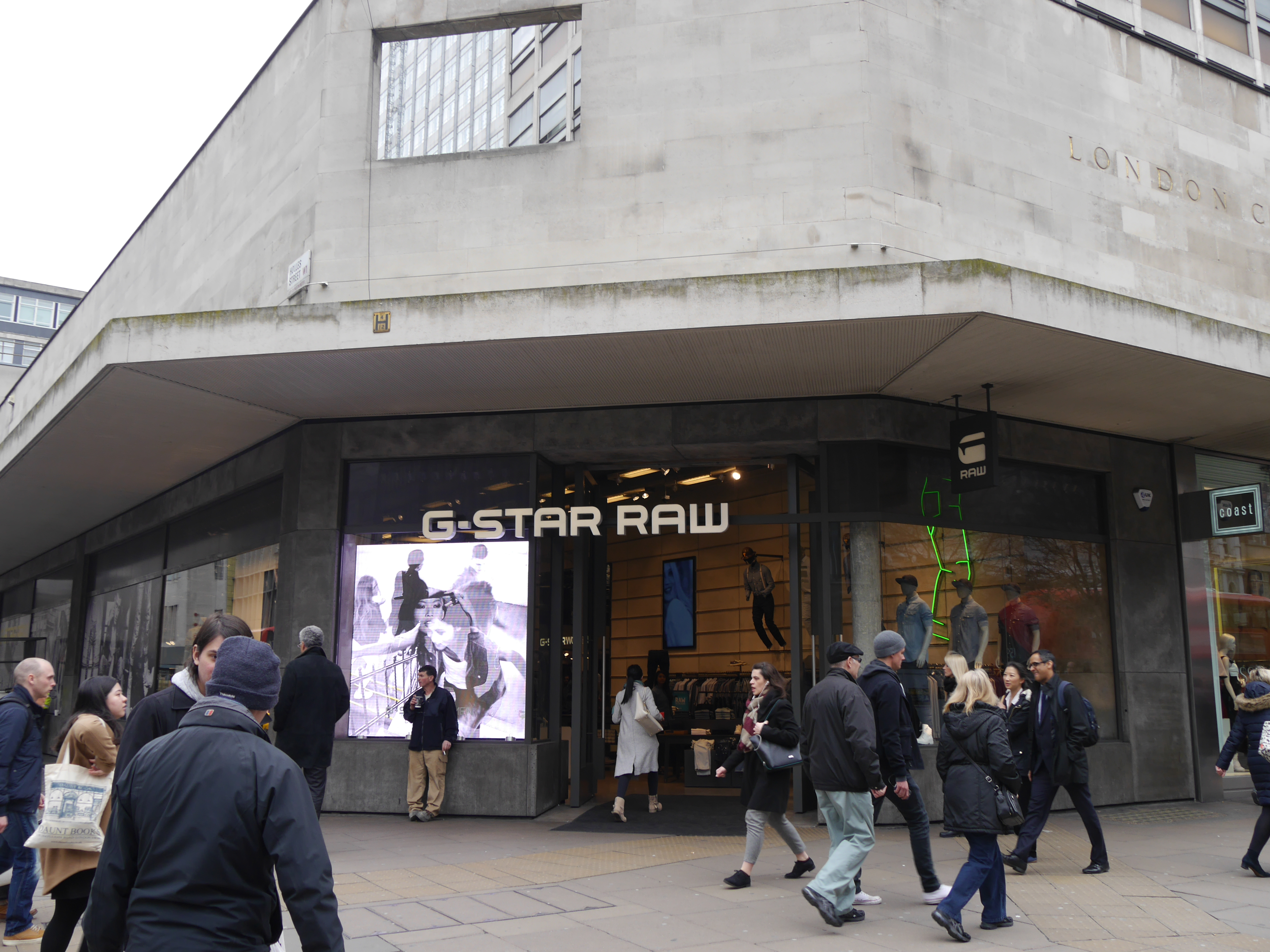 Oxford Street, London, March 2016